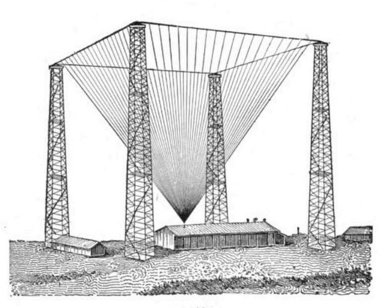 Drawing of Guglielmo Marconi's wireless telegraphy transmitting station in Poldhu, Cornwall, erected October 1901, with which he transmitted the first transatlantic radio message to St. John's Bay, Newfoundland on 12 December 1901, a distance of 2300 mi (3500 km) (although there is some doubt Marconi actually received this transmission). Marconi first built a round cylindrical antenna in summer 1901. When it blew down in a storm 17 September 1901 he hastily erected a temporary antenna consisting of 54 wires suspended in a fan shape from a cable between two 160 ft. poles, which was used in the actual transatlantic experiment. After the experiment in 1902 for permanent transatlanic service he built this antenna consisting of 200 wires in an inverted pyramid supported by four sturdy 210 ft (64 meter) lattice towers. The reason for the multiple wires of the antenna was to increase its capacitance to ground, to allow it to store more energy during each spark. An innovative 25 kilowatt inductively coupled spark gap transmitter in the station, designed by John Ambrose Fleming, produced radio waves probably at a frequency of about 850 kHz. In 17 October 1907 it inaugurated the first regular transatlantic radio service, communicating by Morse code with a similar station in Glace Bay, Nova Scotia, Canada. These were the most powerful radio stations in the world at the time.